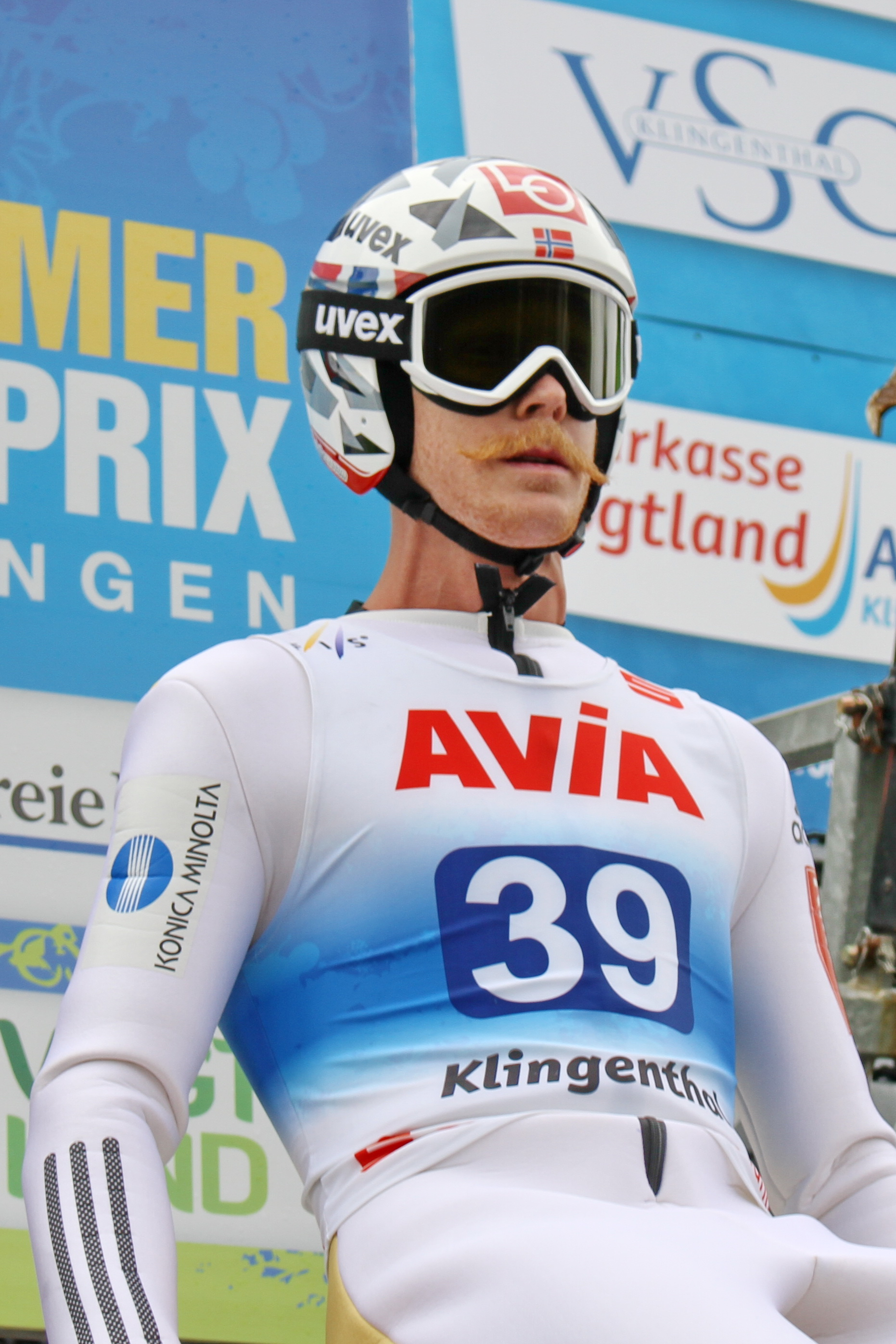 FIS Ski Jumping Summer Grand Prix Klingenthal 2017 on 2017-10-03 Robert Johansson